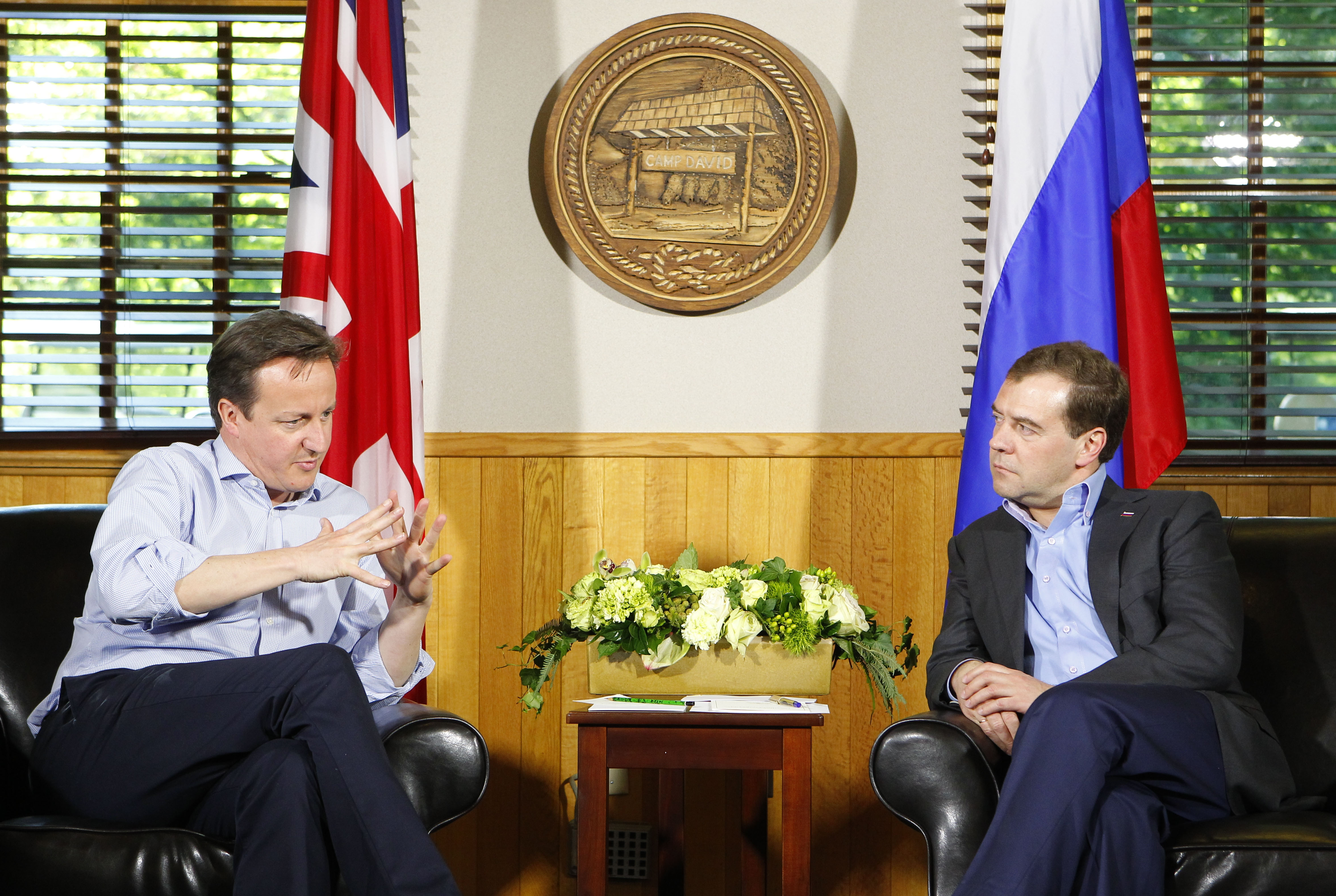 British Prime Minister David Cameron and Russian Prime Minister Dmitry Medvedev during a bilateral meeting on the margins of the 38th G8 summit at Camp David, Maryland.